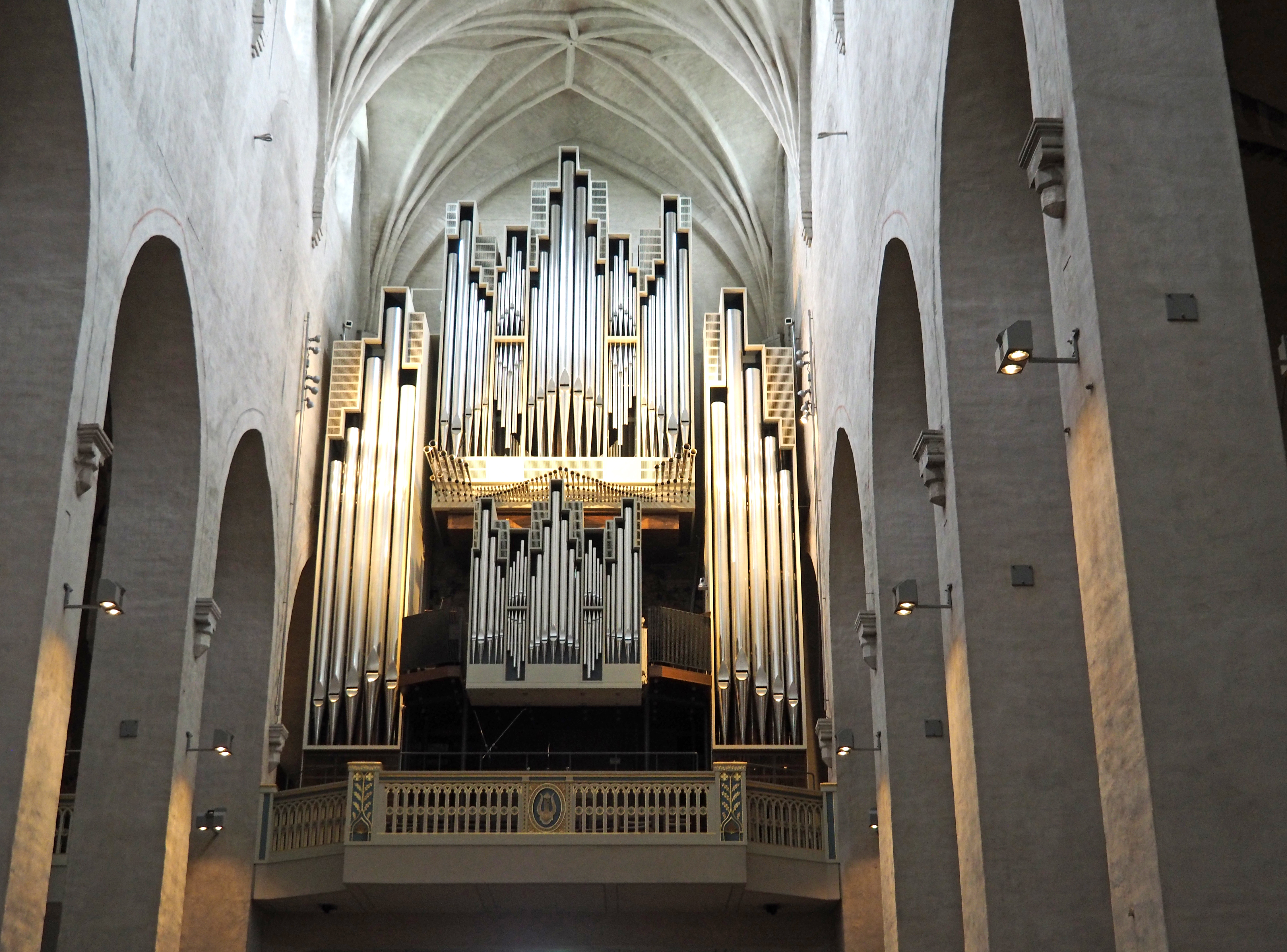 Organ of Turku Cathedral in Turku, Finland.